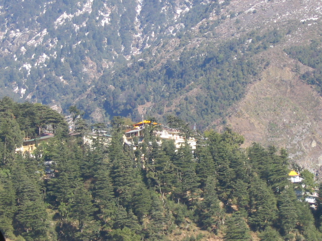 Tibetan Institue for Performing Arts